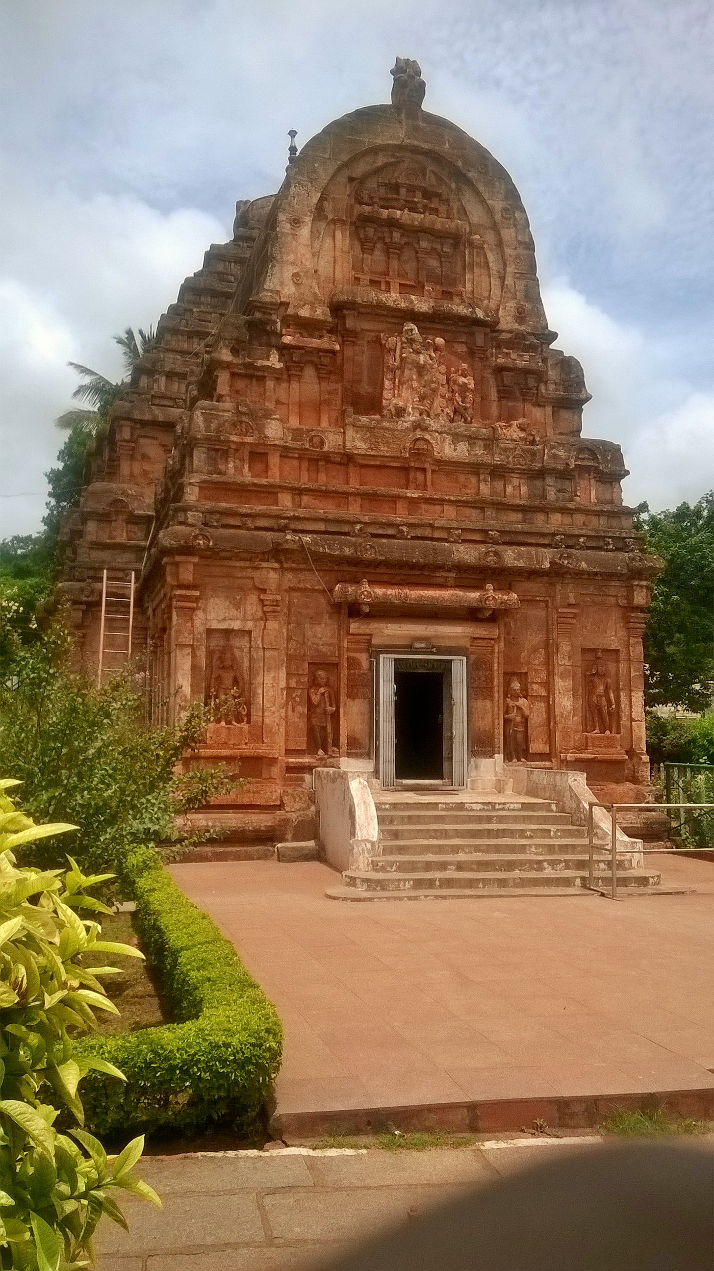 Goddess Parvathy temple situated to left of main kumarswamy temple while entering.